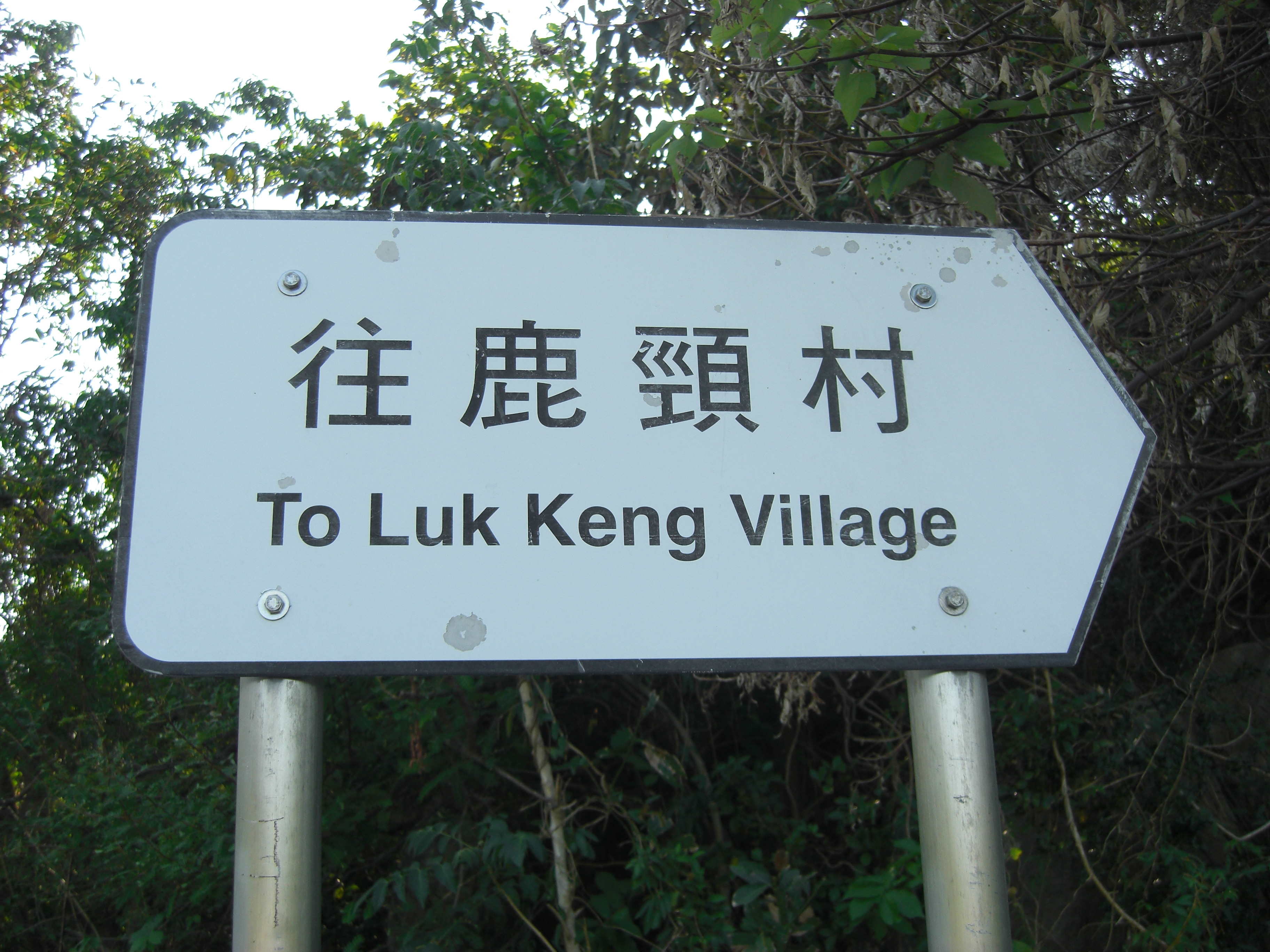 Guidepost showing Luk Keng Village direction